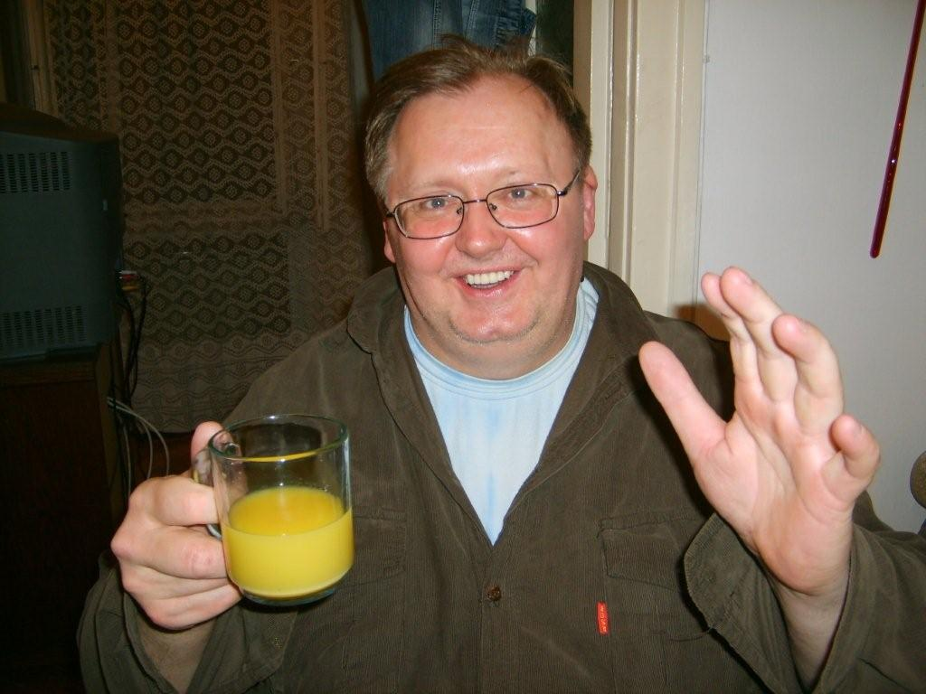 László Harasztosi, psychic